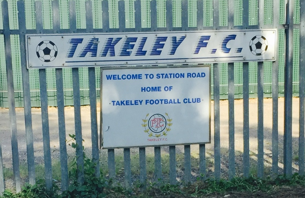 Sign outside Takeley F.C.'s Station Road ground